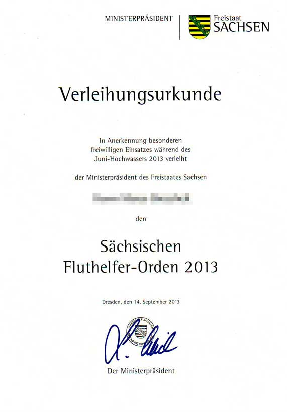 Bestowal document "Sächsischer Fluthelfer-Orden 2013"